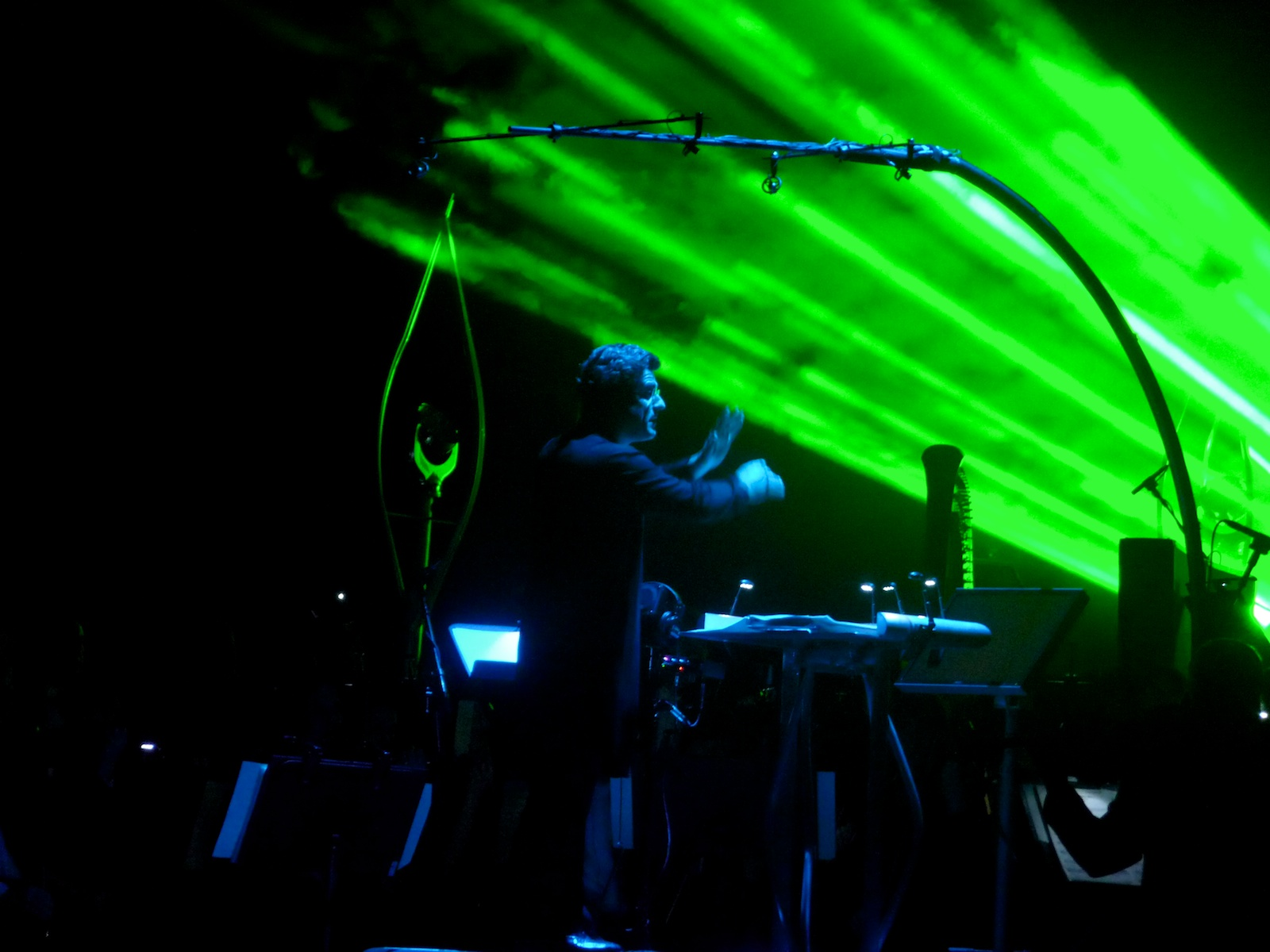 At the O2